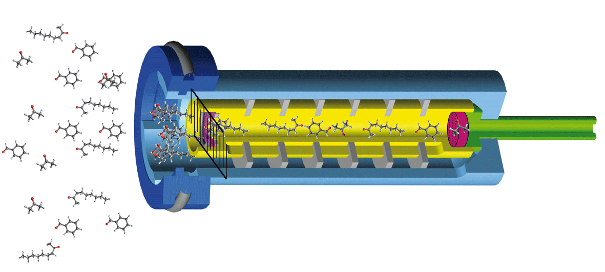 Working principle of an ion mobility spectrometer